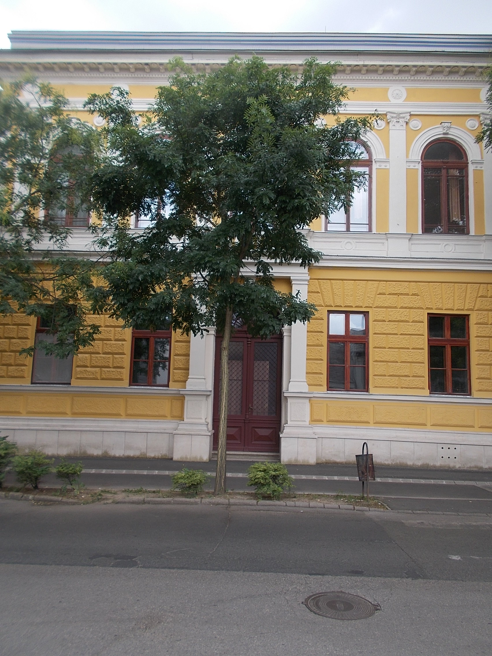 Lutheran high school or Kossuth Lajos high school It was built in eclectic style in 1887 by plans of Bobula János and extended in around 1890. Its facade decoretd with plaques of former students. - 17-19. Szent István Street, Nyíregyháza, Szabolcs-Szatmár-Bereg County, Hungary.